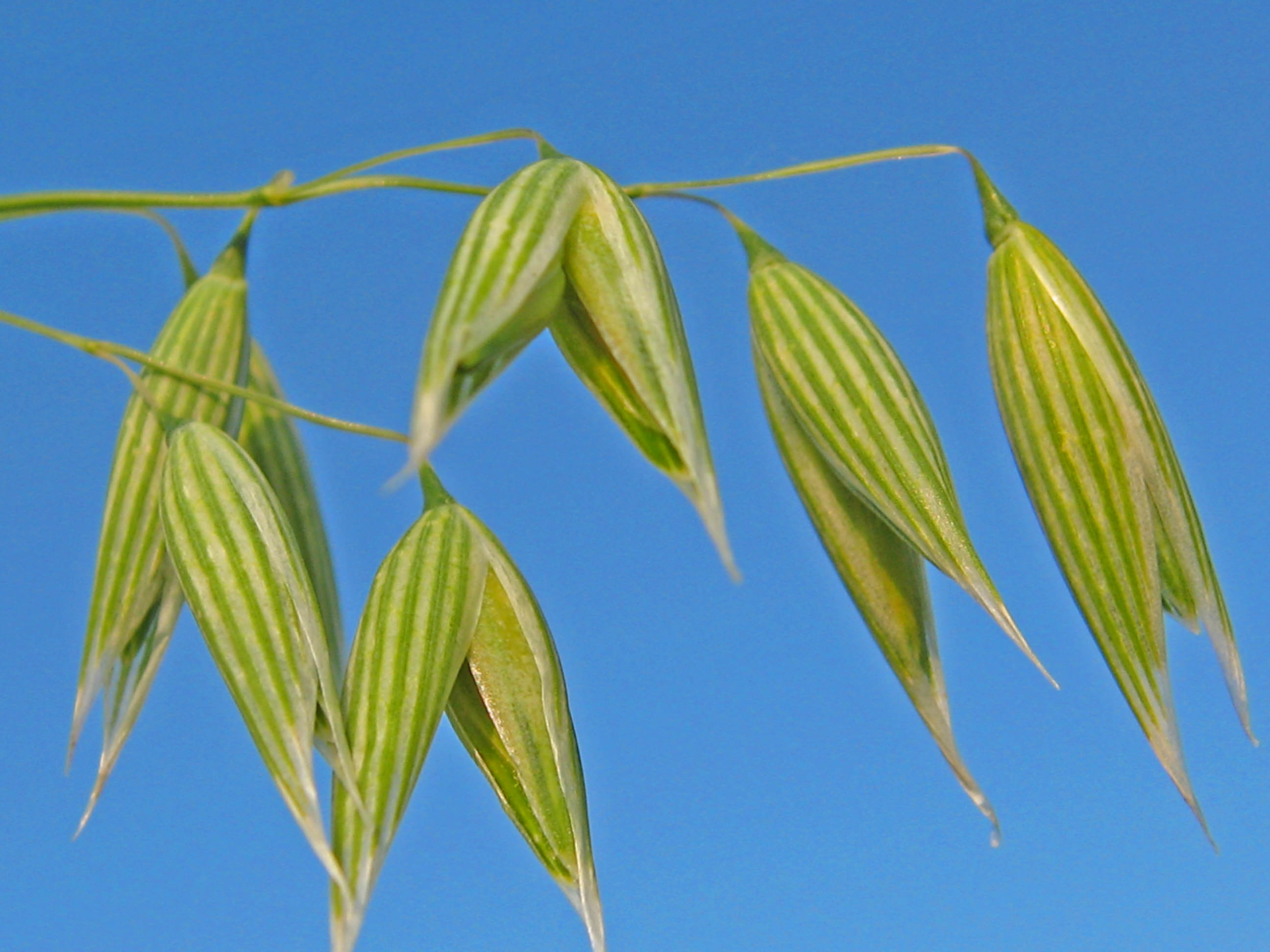 Oat